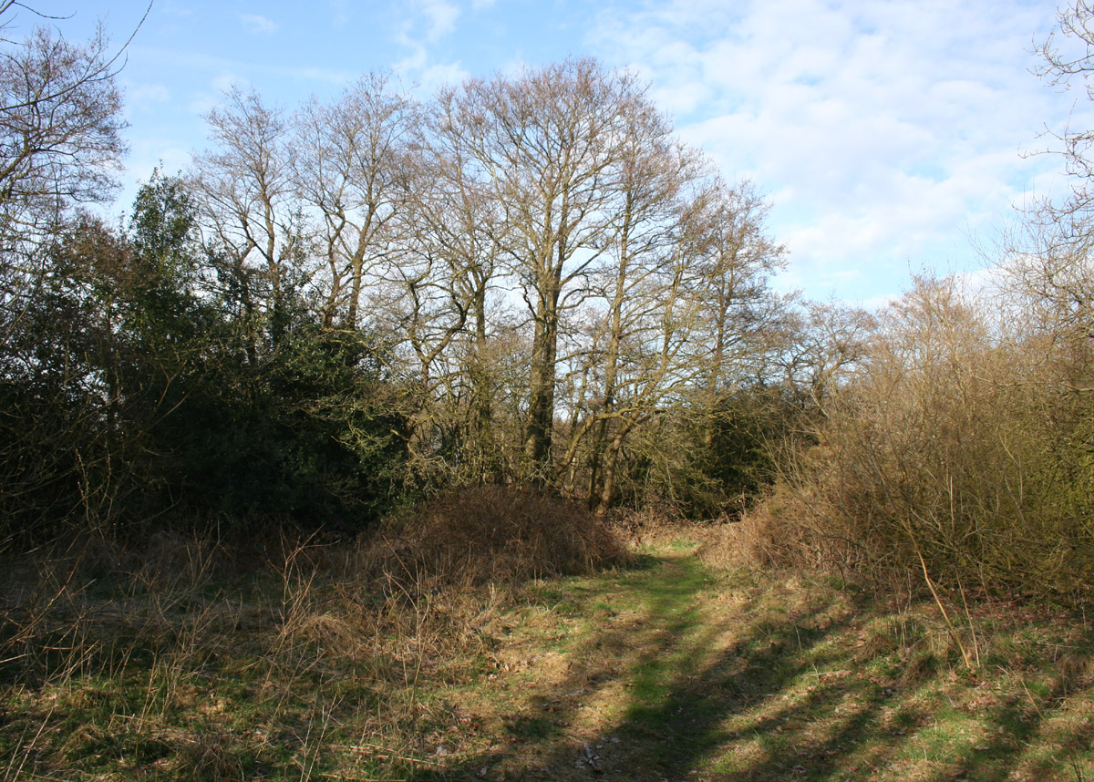 Heath and grassland at Sound Heath, Cheshire. (This view is not within the area of the SSSI/LNR.)